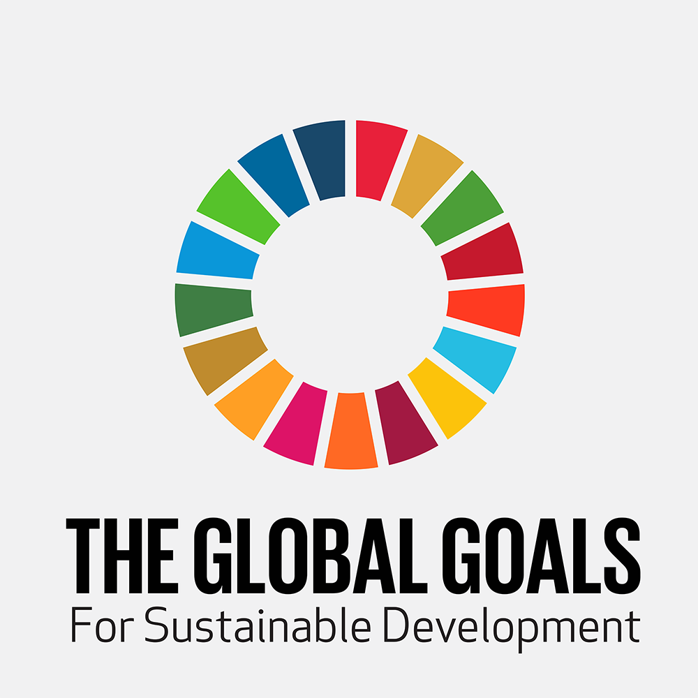 Global Goals Icons